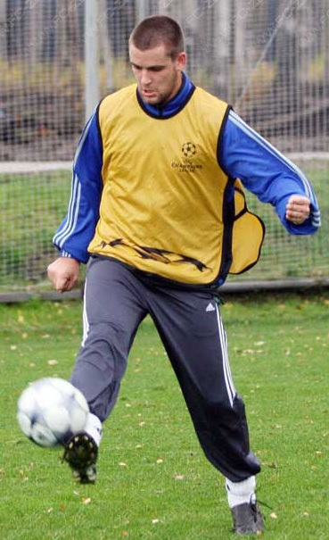 Mikhail Youzhny playing football